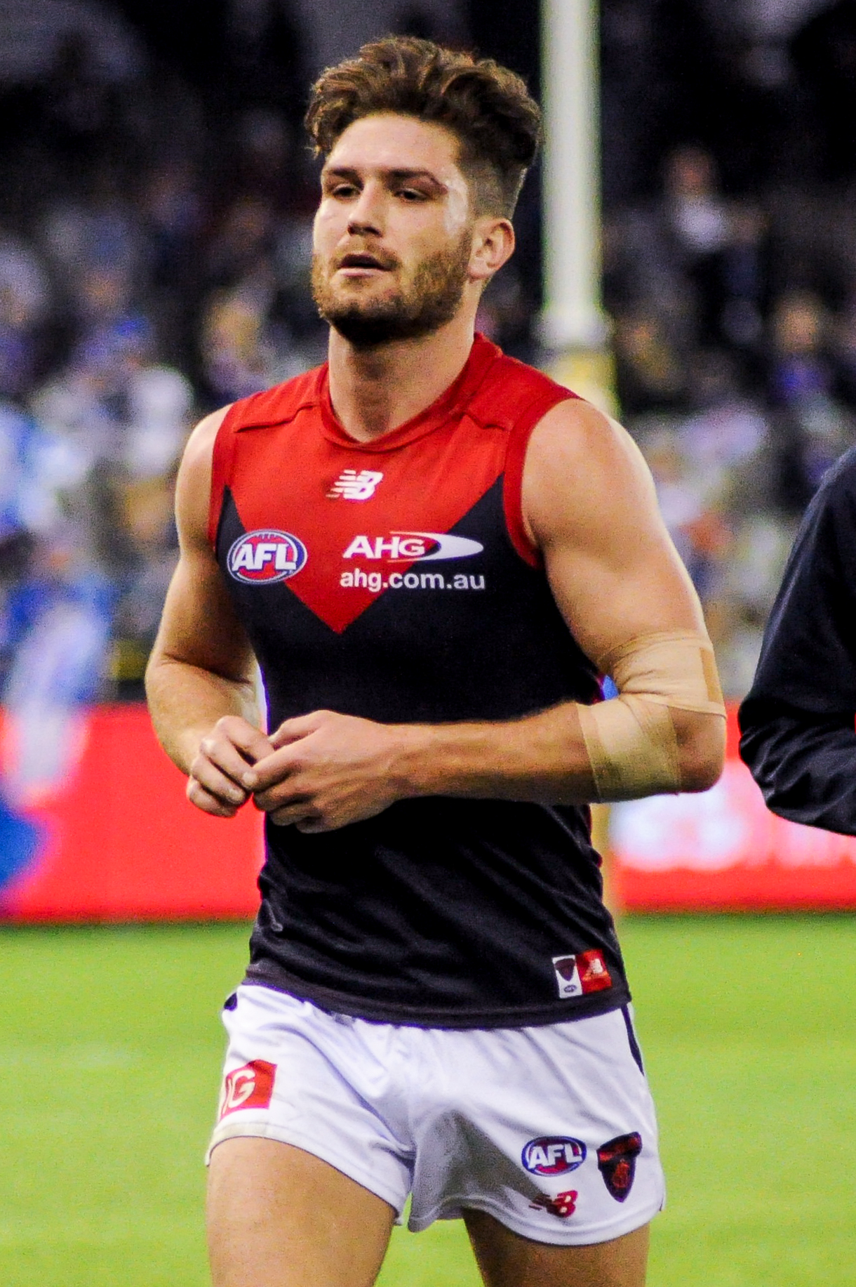 Tomas Bugg during the AFL round thirteen match between the Western Bulldogs and Melbourne on 18 June 2017 at Etihad Stadium in Melbourne, Victoria.